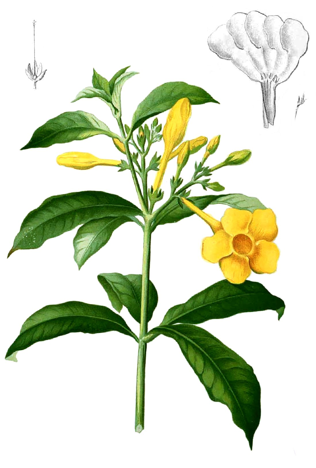 Plate from book